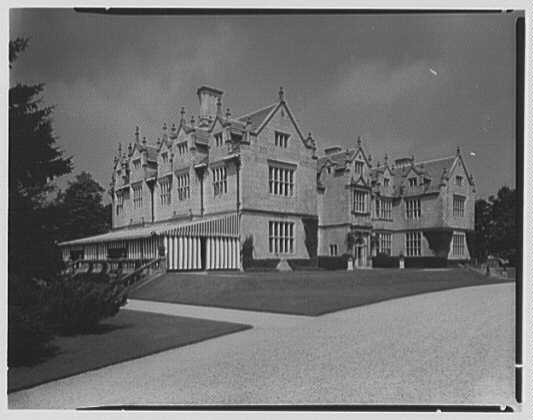 Title: Mrs. Louis Brugiere, Wakehurst, residence in Newport, Rhode Island. Abstract/medium: Gottscho-Schleisner Collection (Library of Congress) Physical description: 1 negative